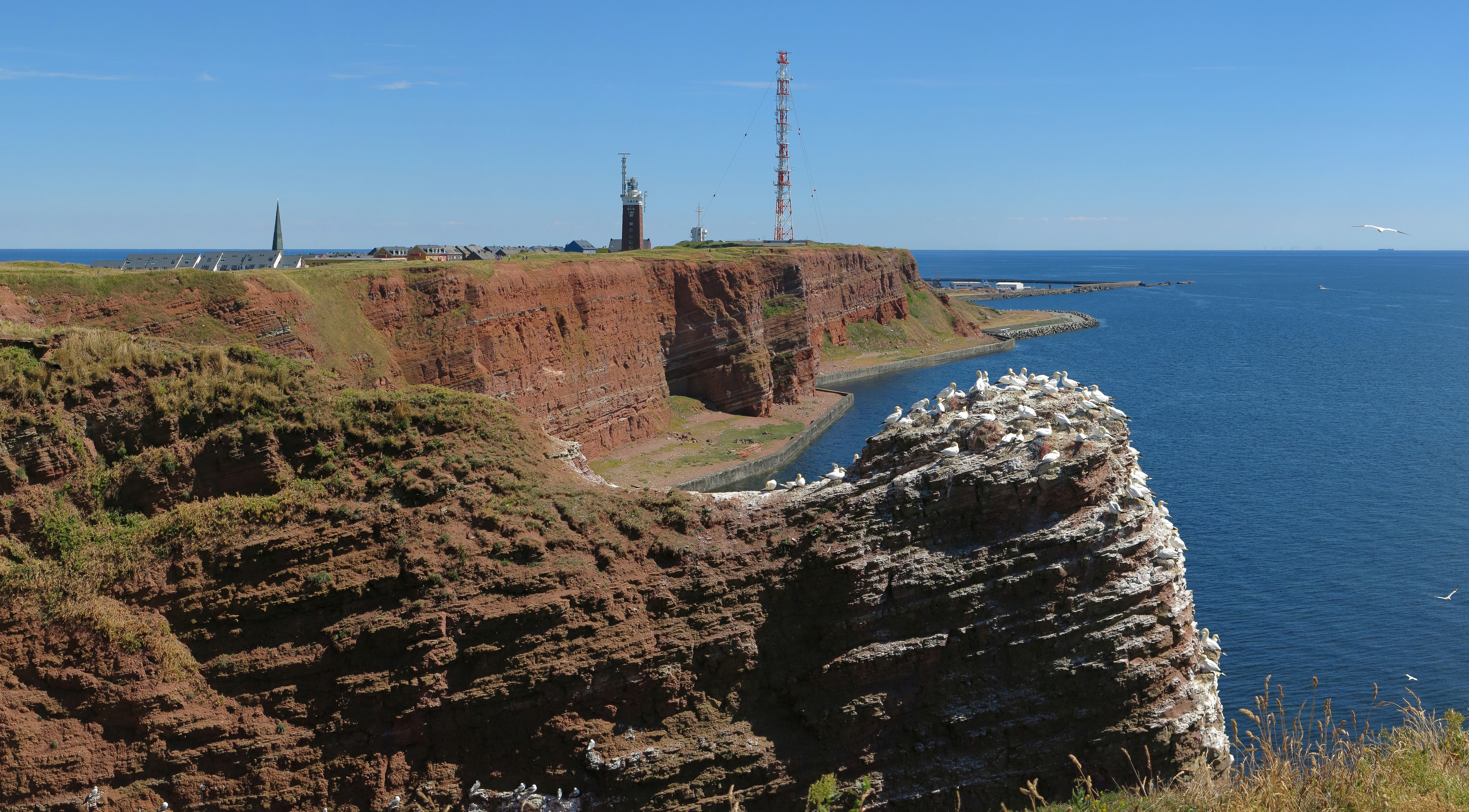 The western cliffs of Heligoland with brooding gannets